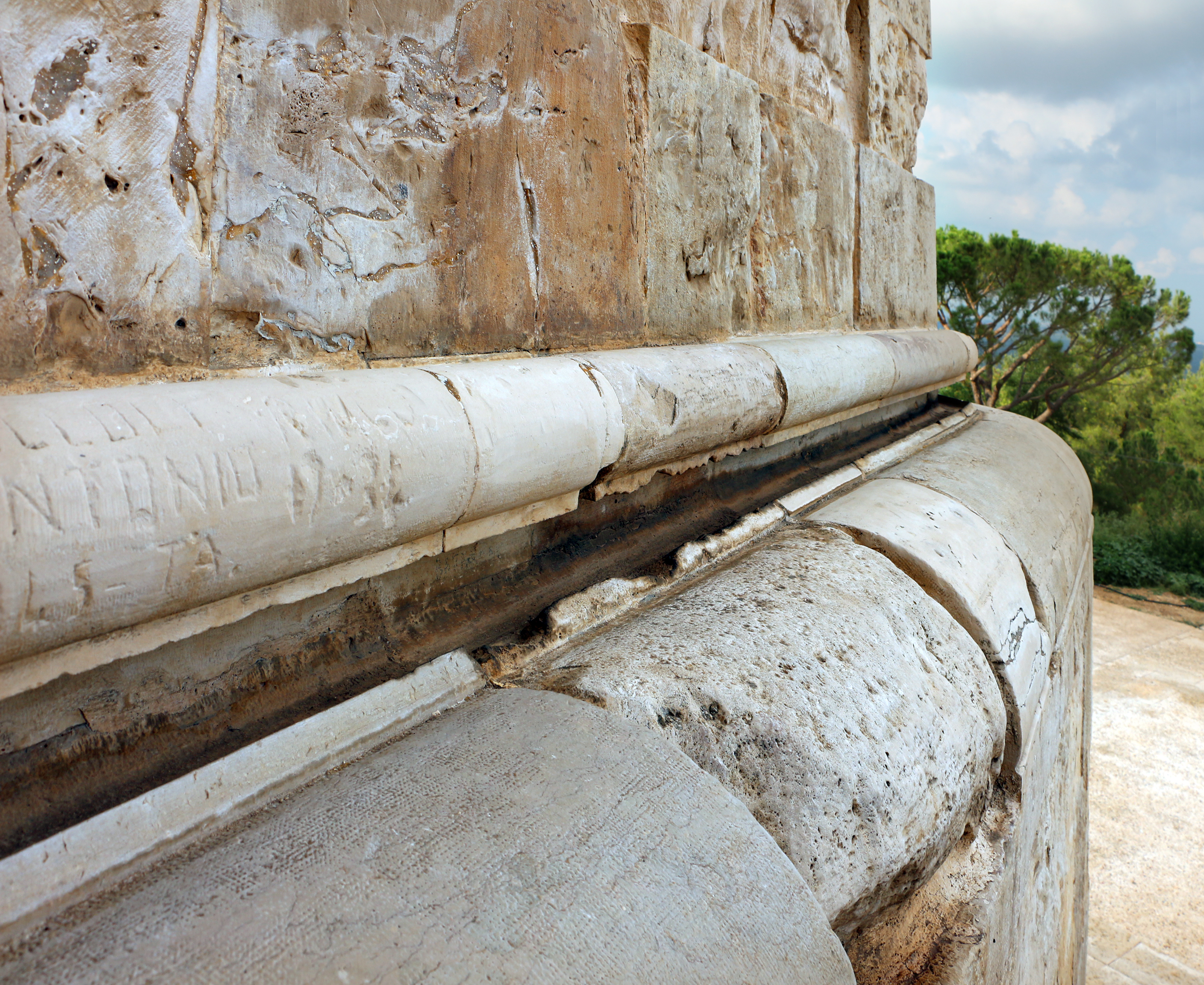 Castel del Monte